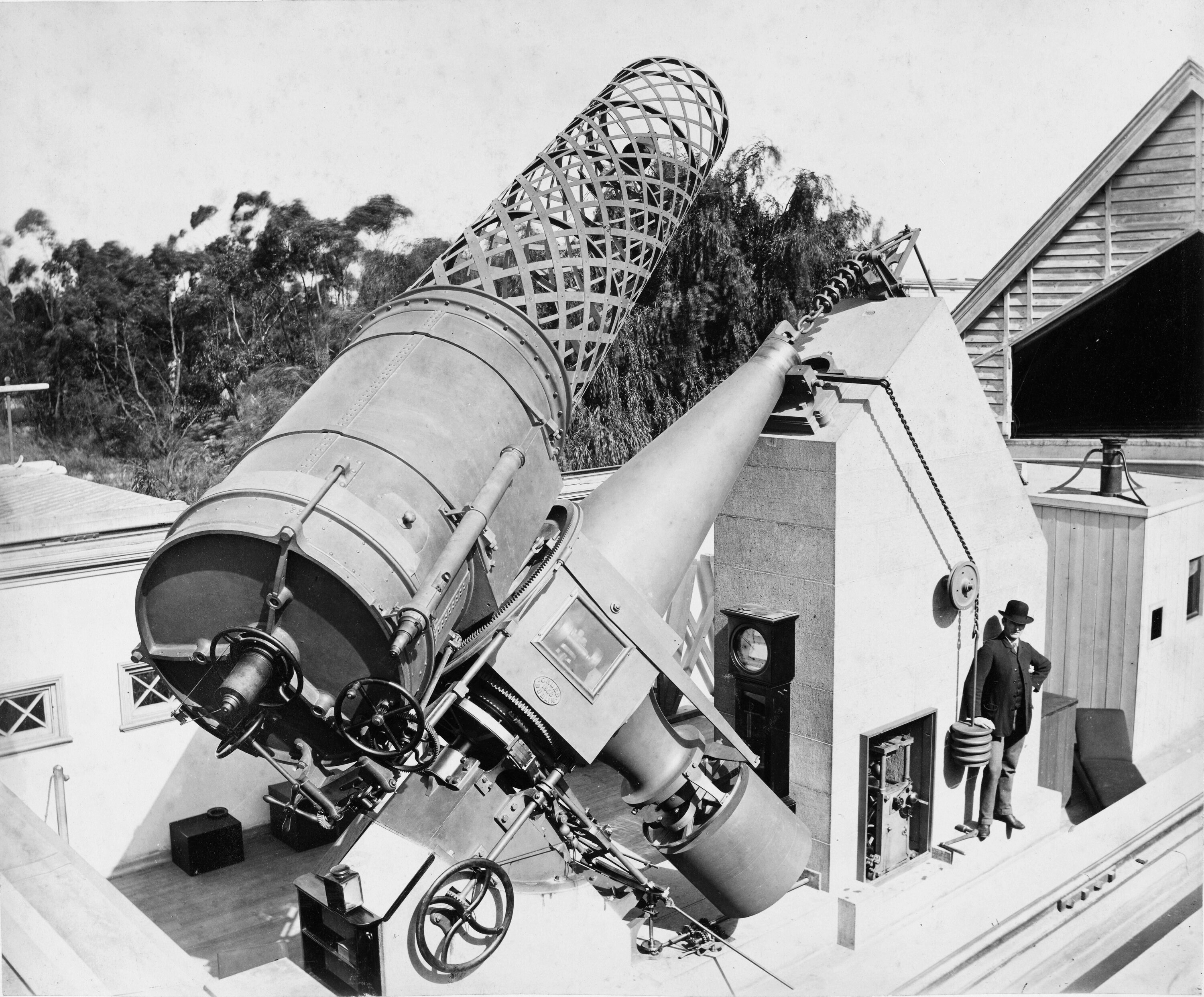 The Great Melbourne Telescope, at one time the second largest telescope in the world, completed and installed in 1880, in the Royal Botanic Gardens, Melbourne, Australia.